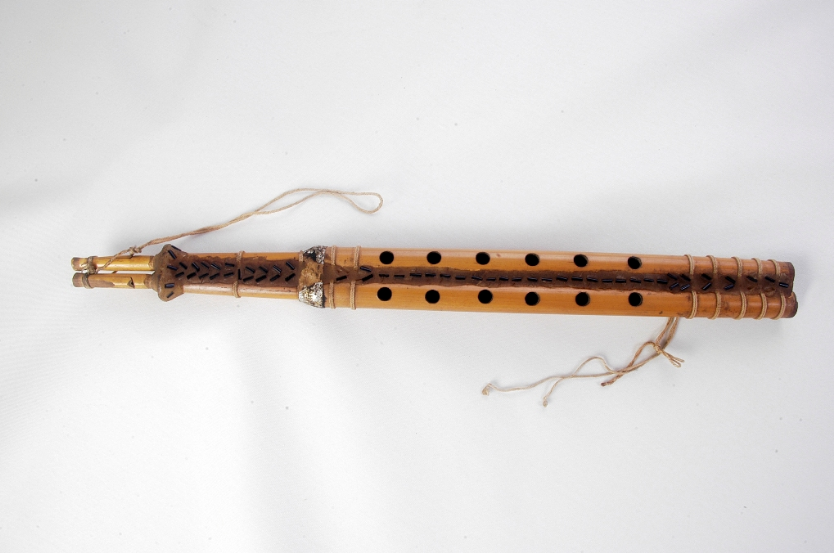 Zummara Sittawiyya. Collection of Museo Azzarini, Universidad Nacional de La Plata.